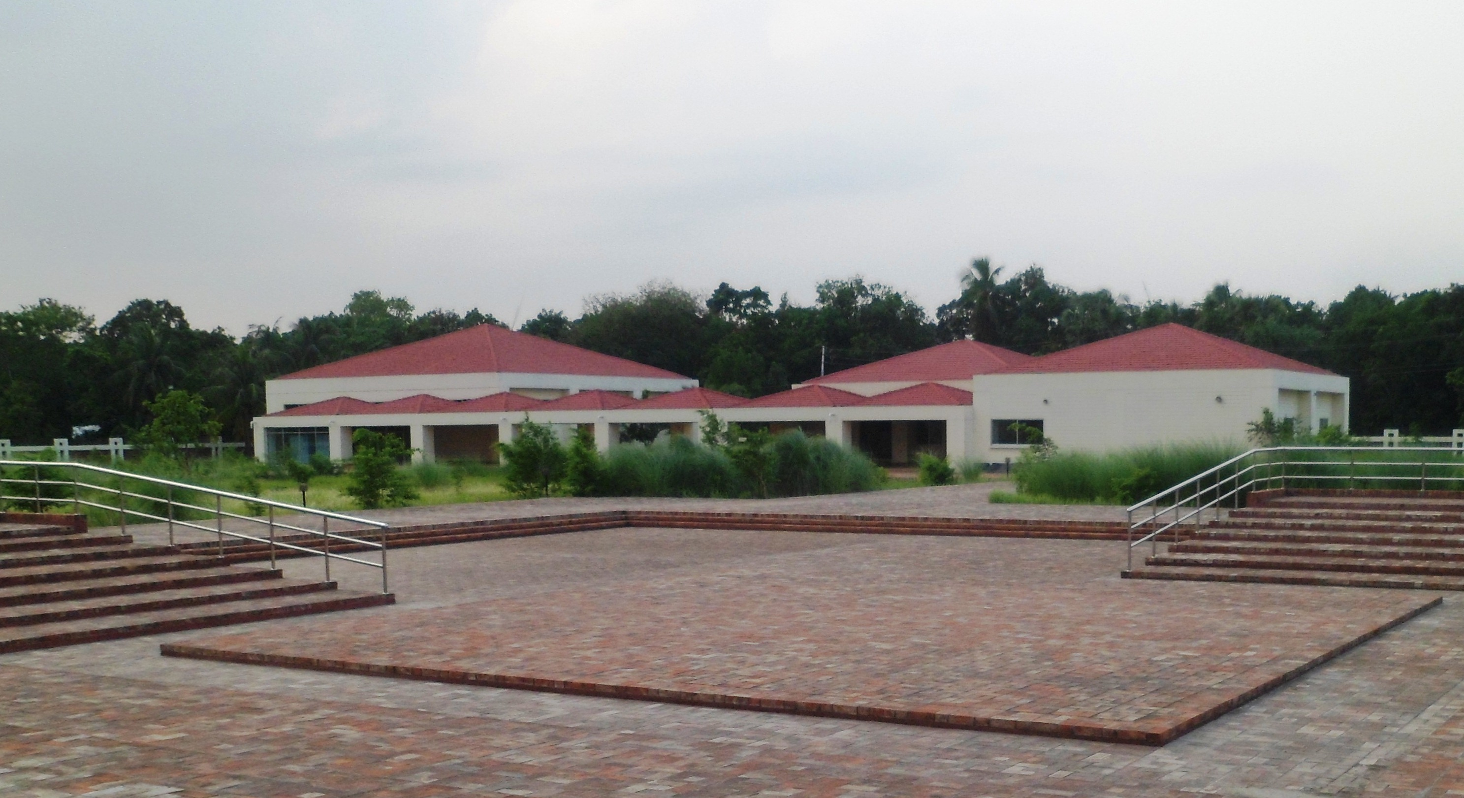 This is the long distance frontal view of Palli Kabi Jasim Uddin Songrohoshala (Jasim Uddin Museum) in Faridpur, Bangladesh.